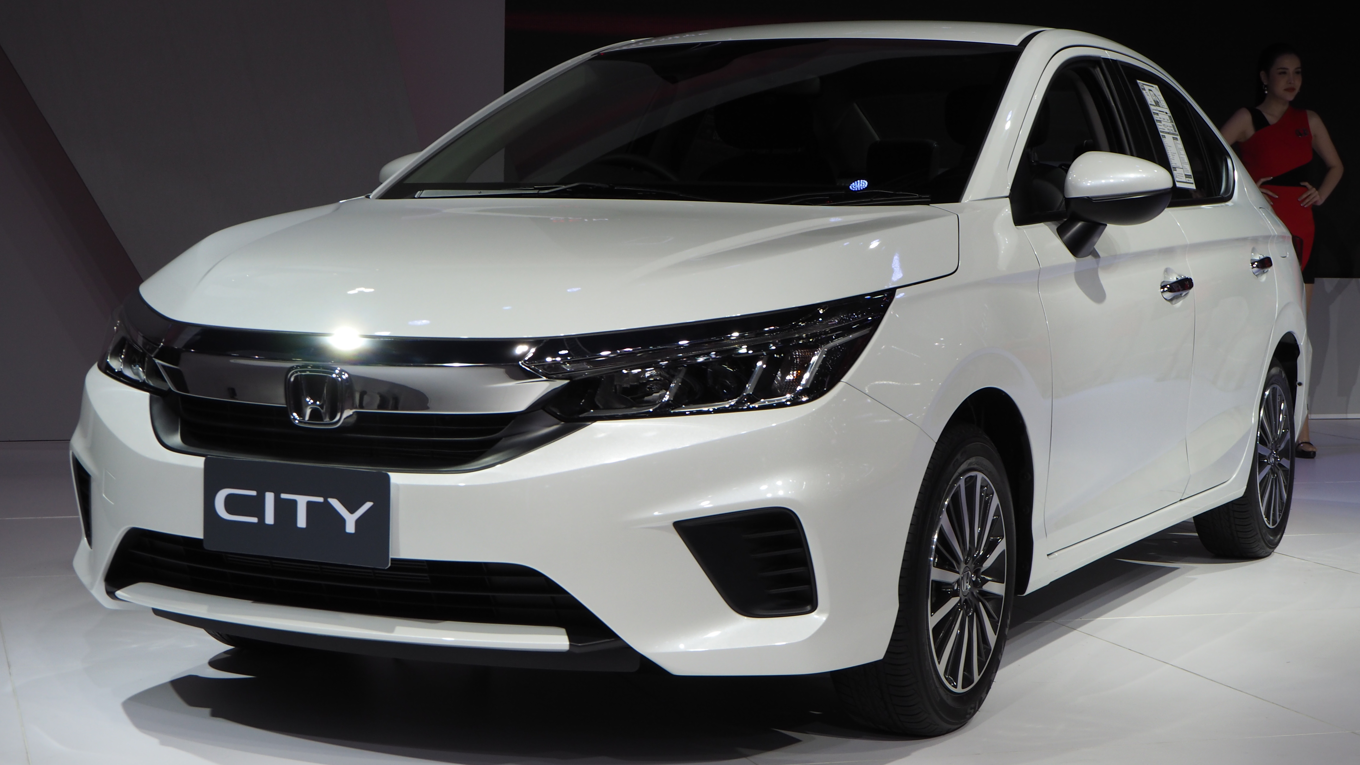 2019 Honda City SV in Impact Challenger Hall, Muang Thong Thani, Nonthaburi, Thailand.